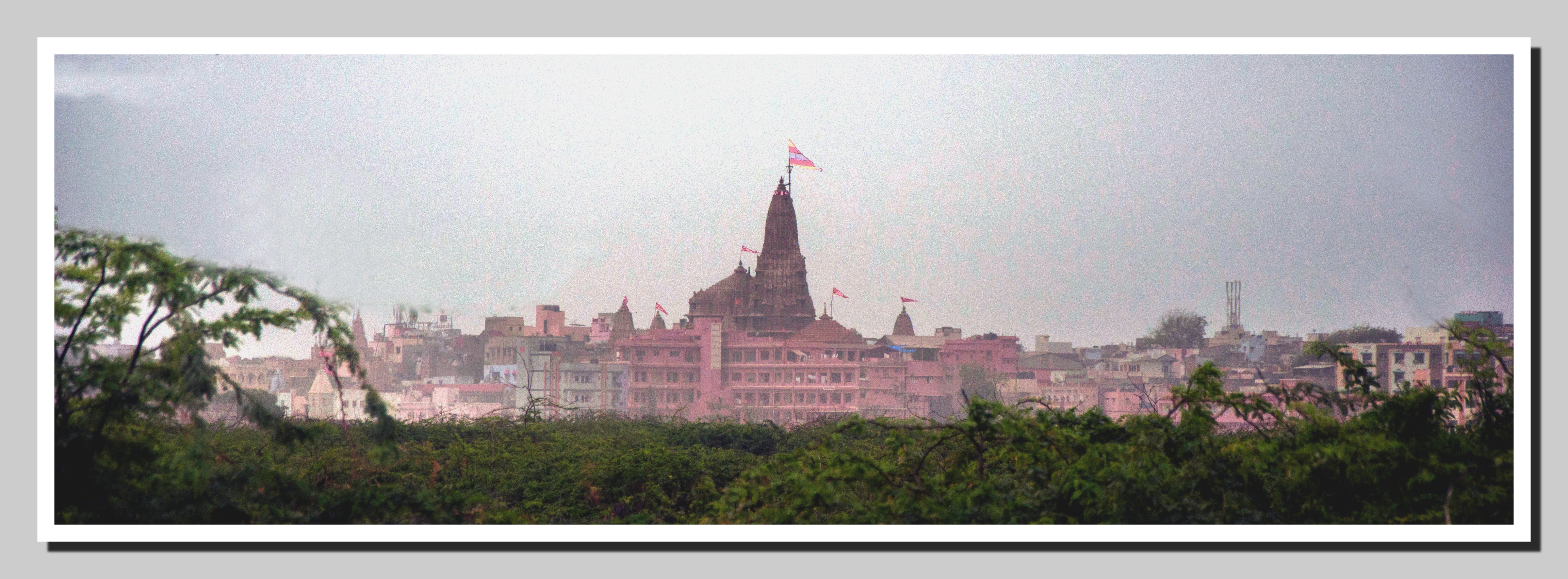 Dwarka sity taken from 2 kms distance. The tallest tower is the Dwarkadeesh Temple. The city of Dwarka is built around the temple.